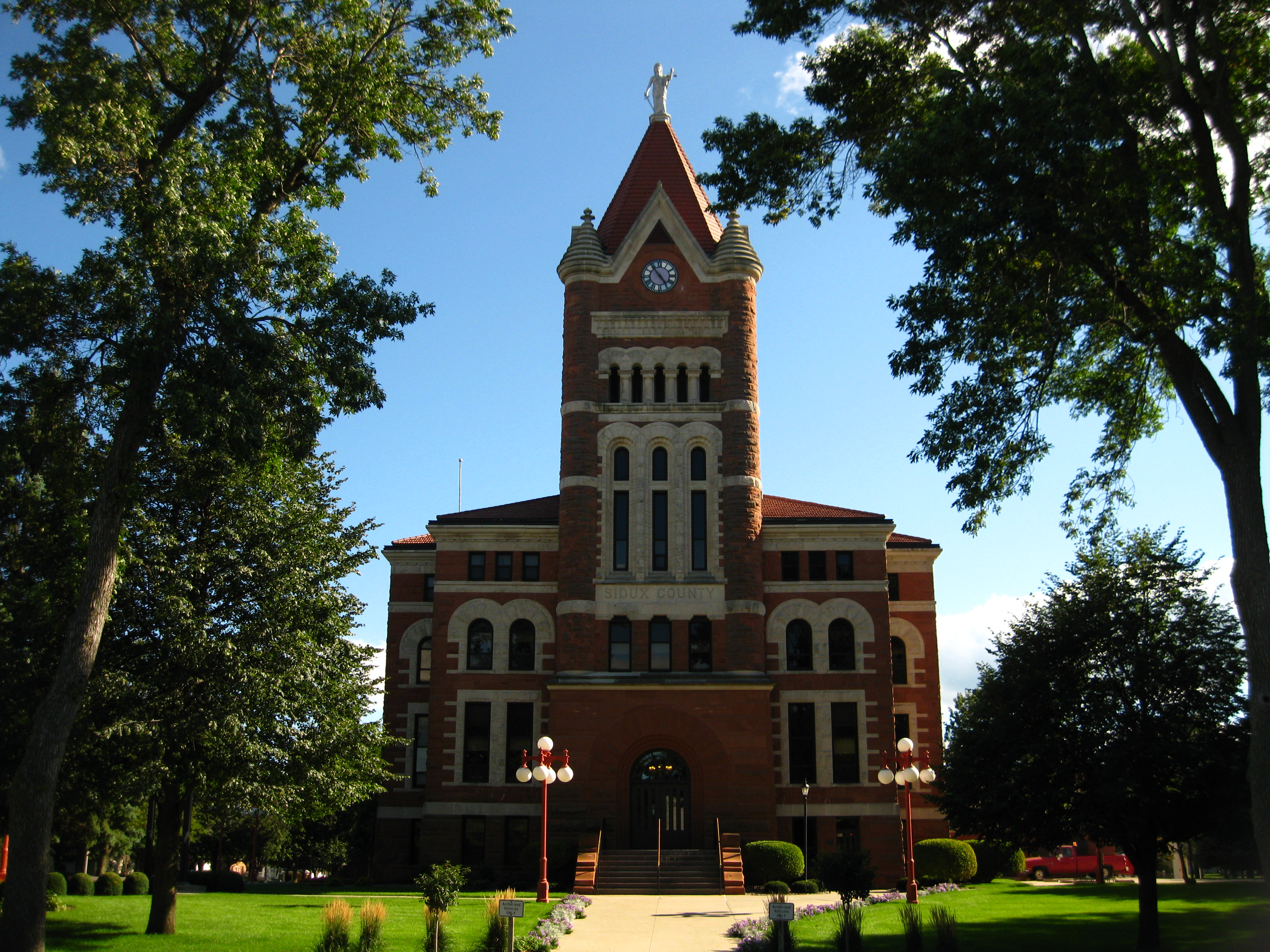 This is a picture of the Sioux County Courthouse in Orange City, IA, taken from a point across the street to the north.